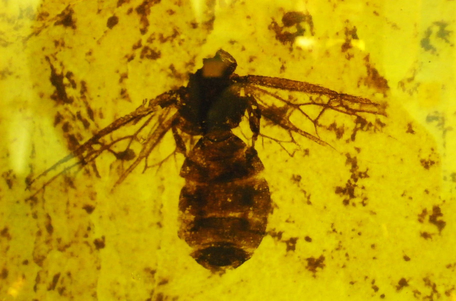 Fossil of Titanomyrma gigantea (syn: Formicium giganteum), an extinct ant- Took the photo at Senckenberg Museum of Frankfurt